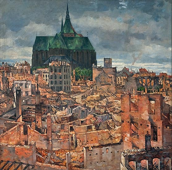 Egon Tschirch - Destroyed city - 1942